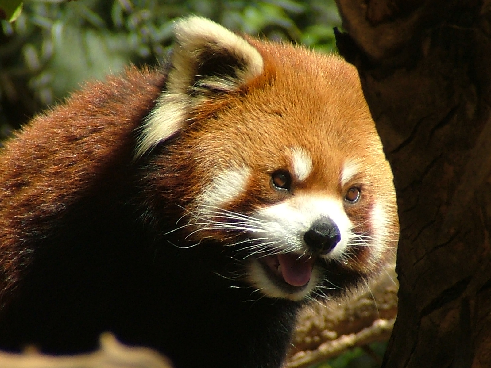 A Red Panda (Ailurus fulgens), named Simon, at the Jerusalem Biblical Zoo.